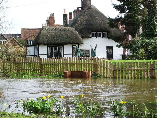 River Avon in Flood, Ringwood. Torrential rain in March 2007 has caused the River Avon to swell. This is the view at the bottom of West Street, Ringwood. You can see the daffodils are under water.